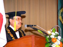 Rektor berpidato